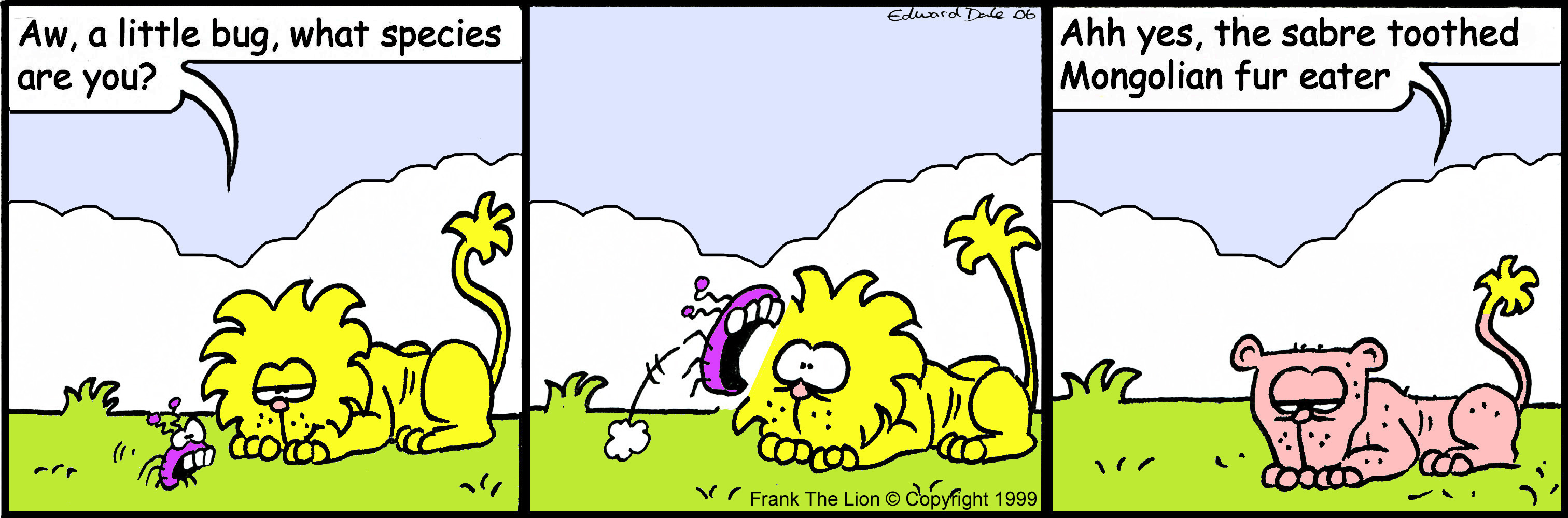 Frank strip